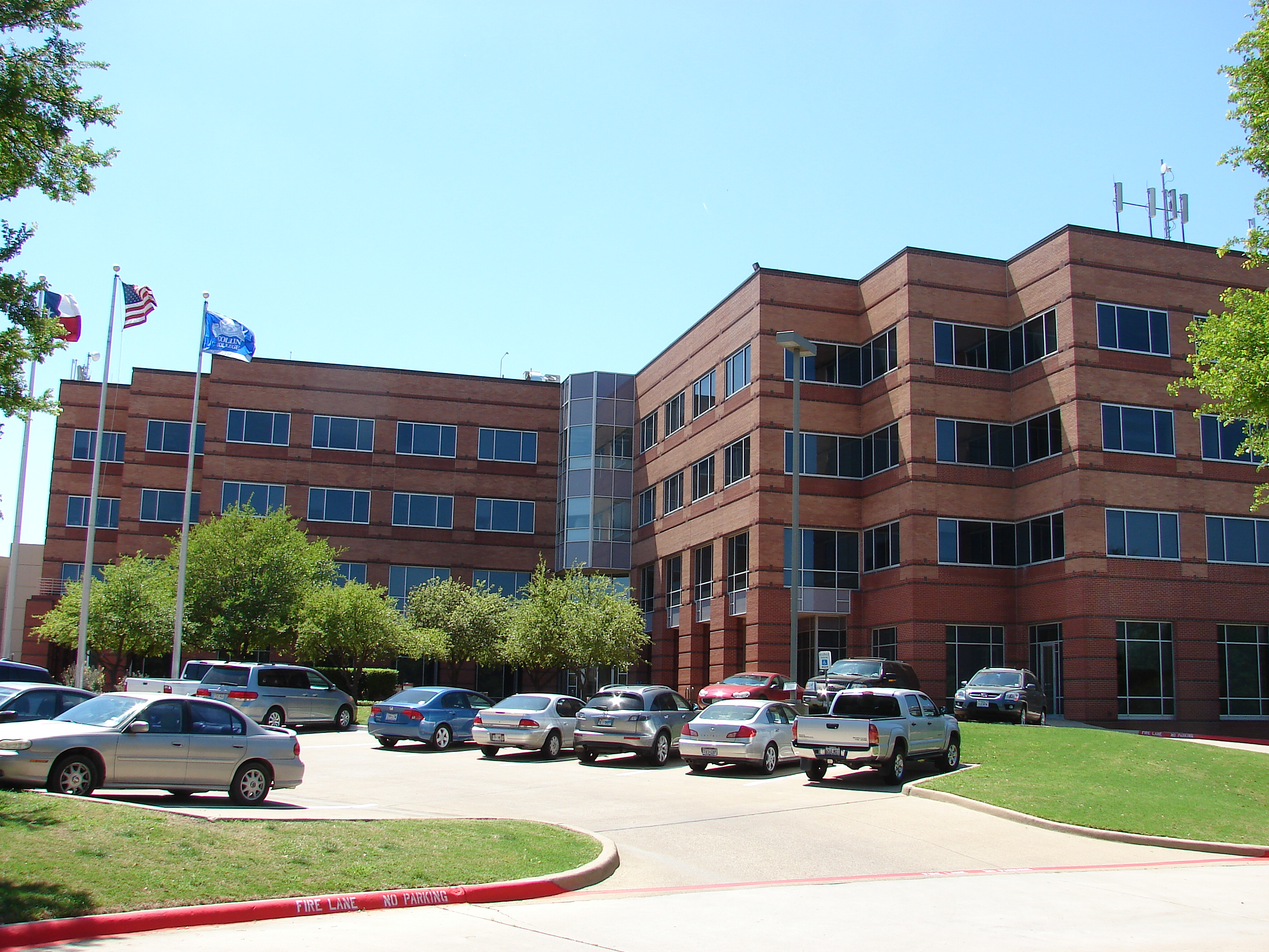 Collin College Courtyard Center campus in Plano, Texas.